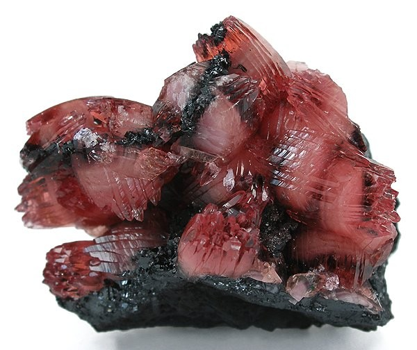 Rhodochrosite, Manganite Locality: N'Chwaning I Mine, N'Chwaning Mines, Kuruman, Kalahari manganese fields, Northern Cape Province, South Africa (Locality at ) Size: 4.0 x 3.3 x 2.6 cm. This is your classic wheat-sheaves style rhodochrosite on a matrix of manganite, a superb specimen from the famous finds here in the early 1980s. This particular style is absolutely unique to this locality and this time period. I cannot say how they form, but they are all formed of a gemmy crystal with multiple tiny terminations, and a strange white band inside the middle. These crystals are about 1 cm. They are gemmy and sparkling, and contrast dramatically to the manganite matrix below. This piece has over half a dozen such crystals. Ex. Jaime Bird Collection.